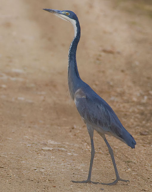 Black-headed Heron from Serengeti National Park, Tanzania